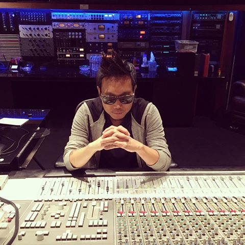 Picture of me in the studio